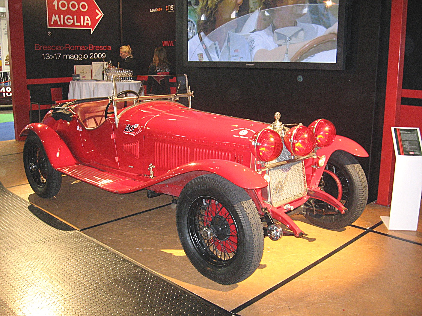 Subject: Alfa Romeo 6C 1750 Gran Sport Date:October 26th, 2008 Event: Auto e Moto d'Epoca 2008 Place/Country: Padova, Italy I release all rights in the public domain.